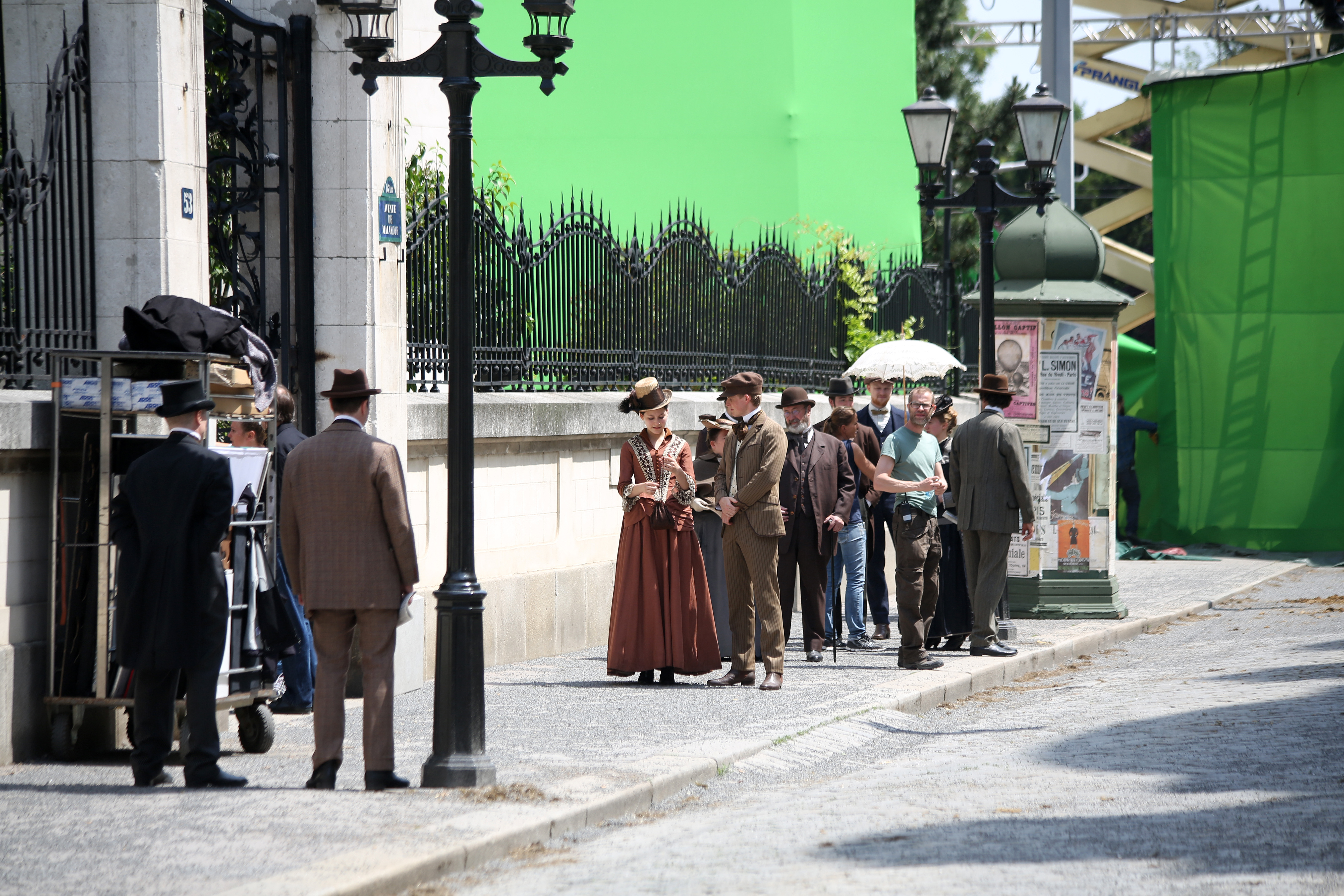 Filming of the movie Madame Nobel in and around the Embassy of France in Vienna (Vienna, Austria).